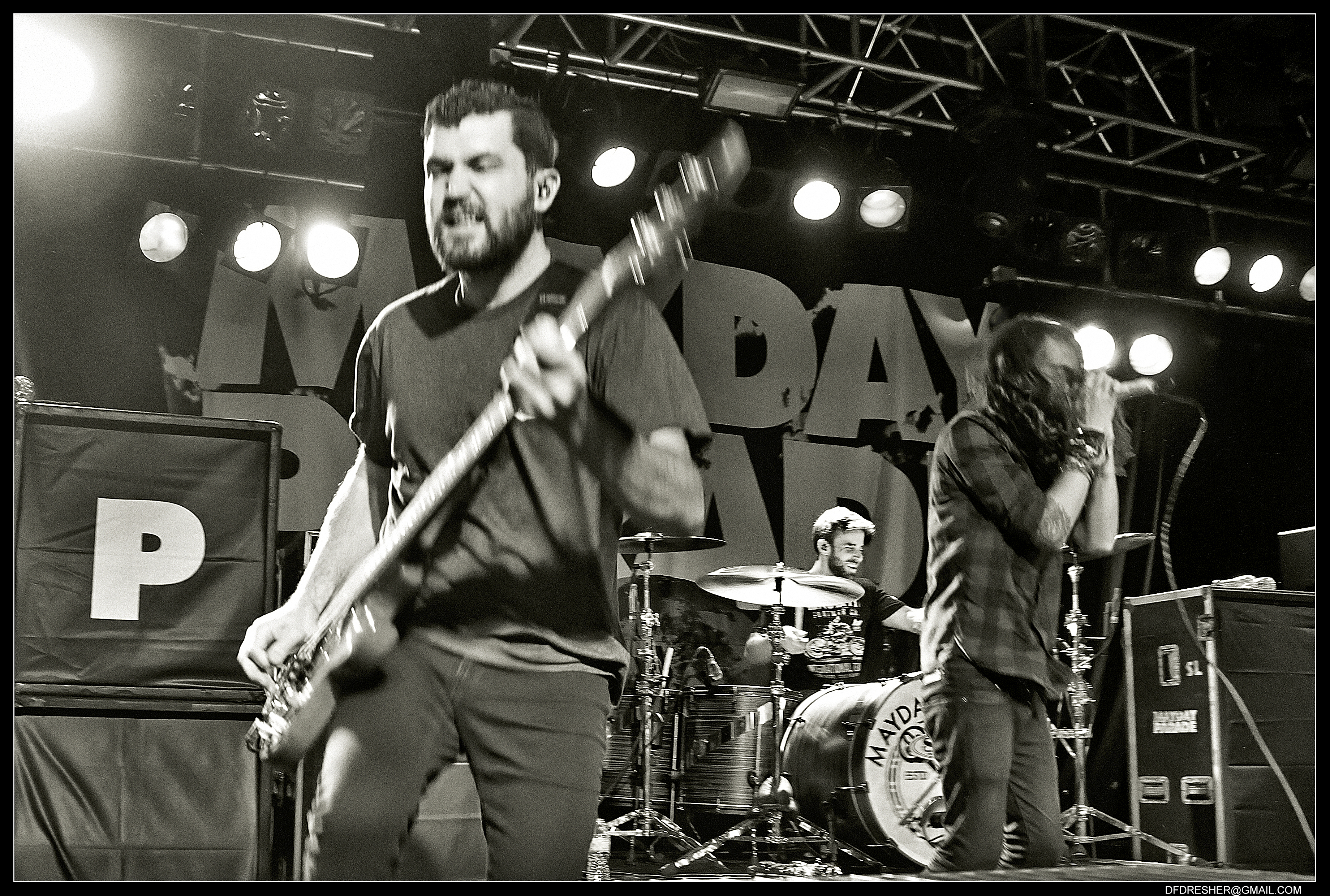 American band Mayday Parade live in 2014